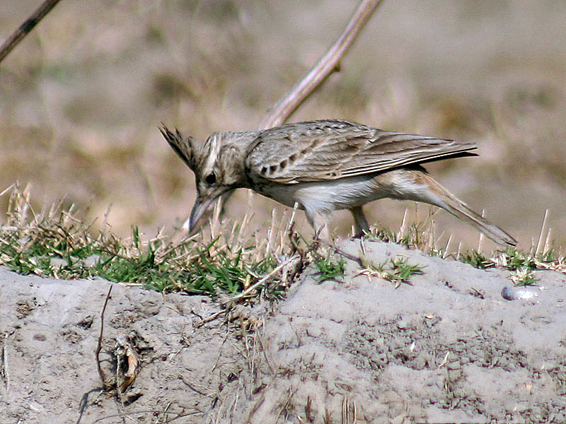 Crested Lark (Galerida cristata) at Hodal in Faridabad District of Haryana, India.